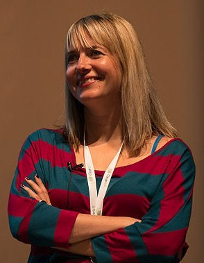 Lauren Beukes speaking at dConstruct, Brighton, September 2012.